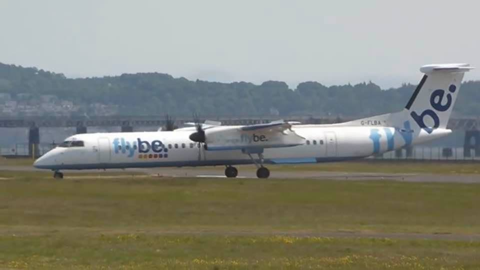 Taxi way at Dundee - Flybe